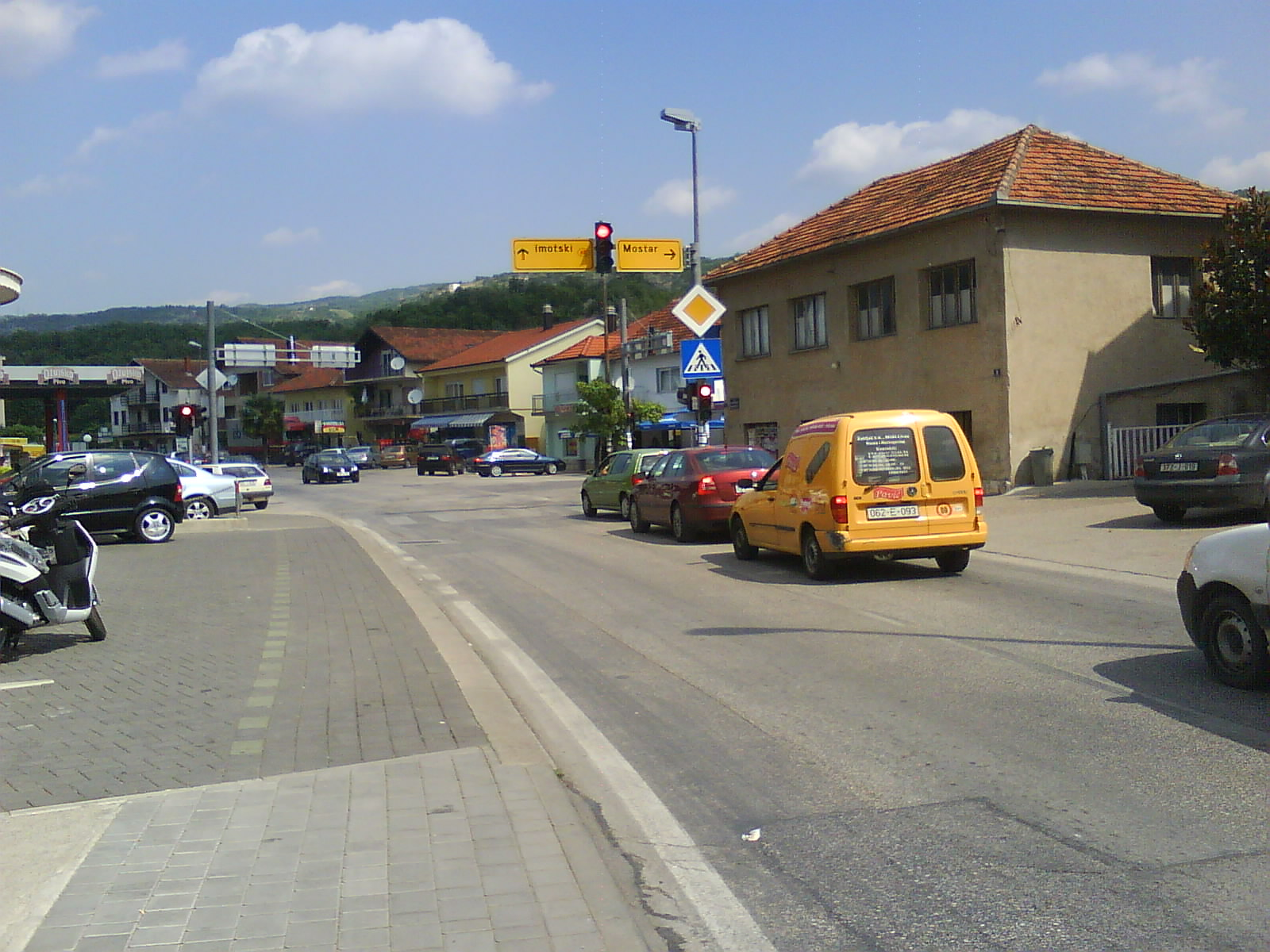 Croatian defenders street,city of Grude